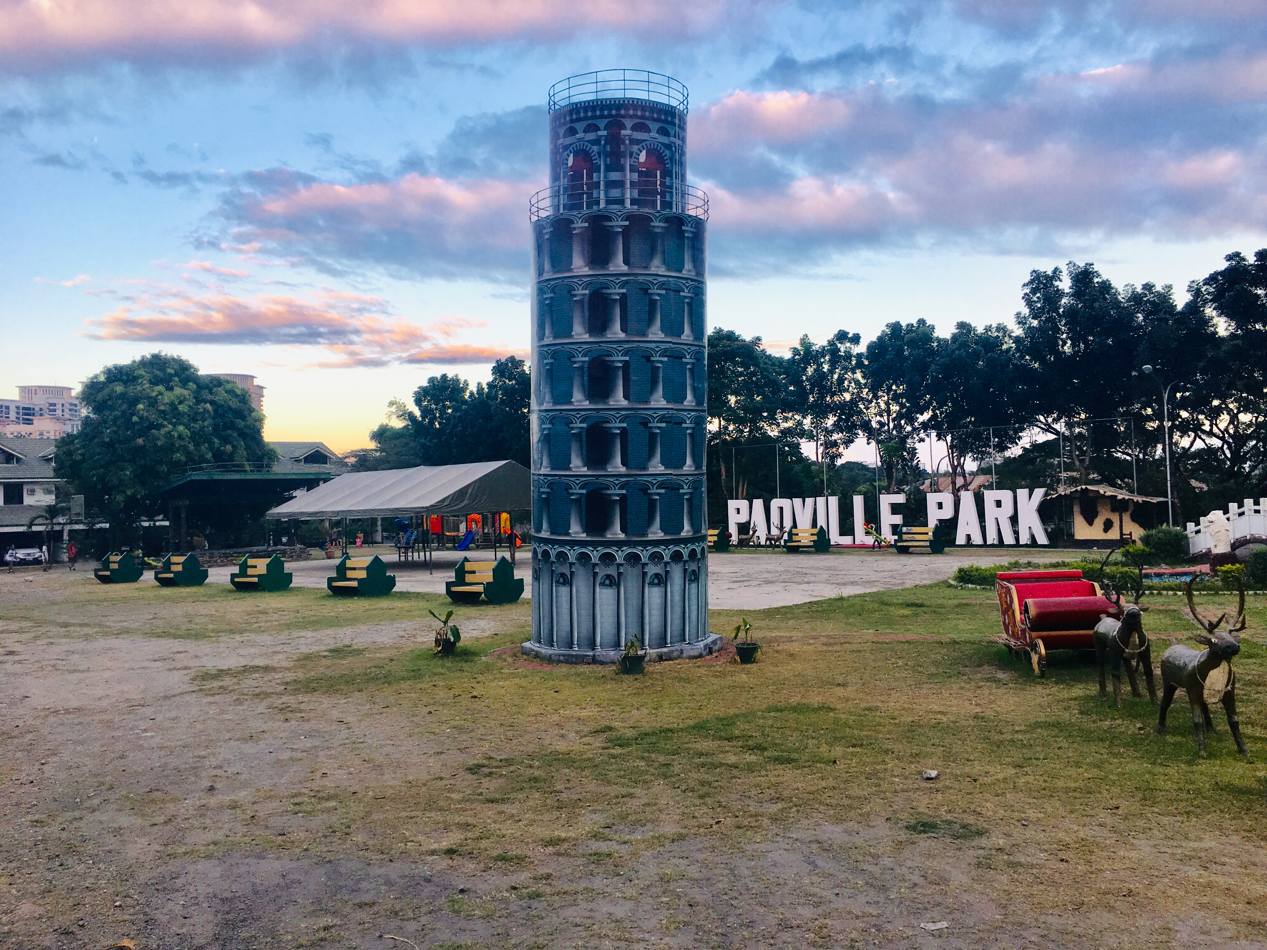 Paoville Park inside Fort Bonifacio, Taguig City